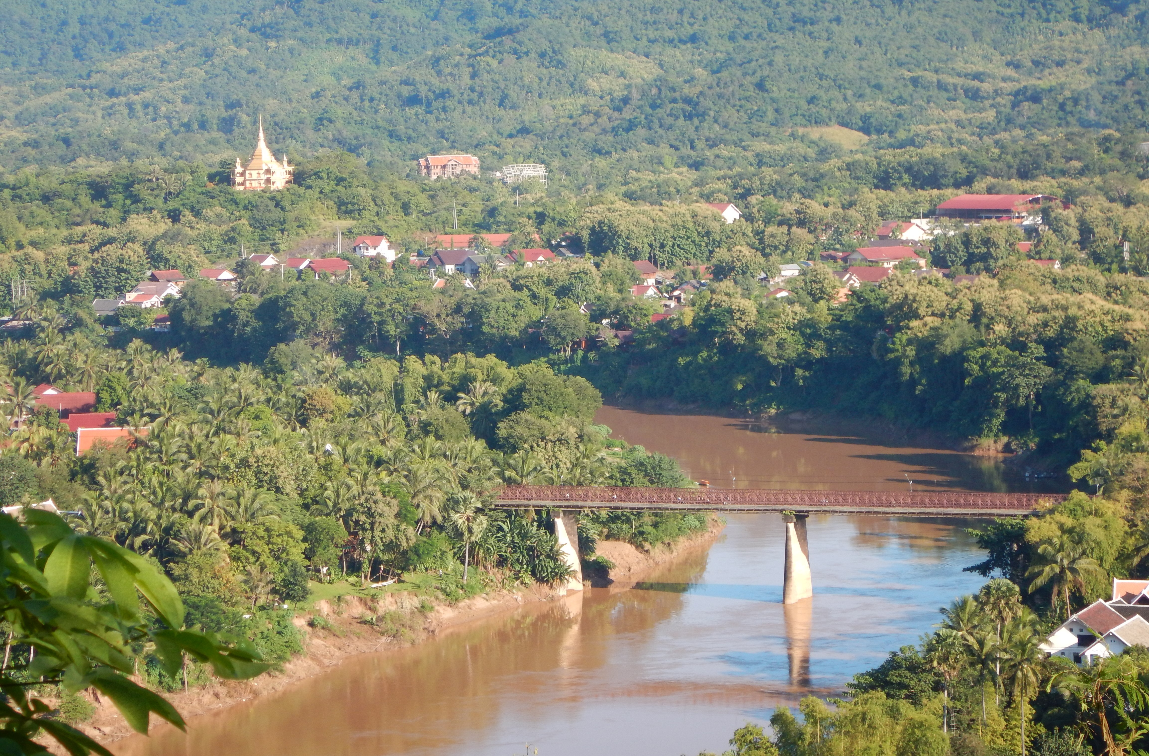 Nam Khan River near Luang Prabang - Laos